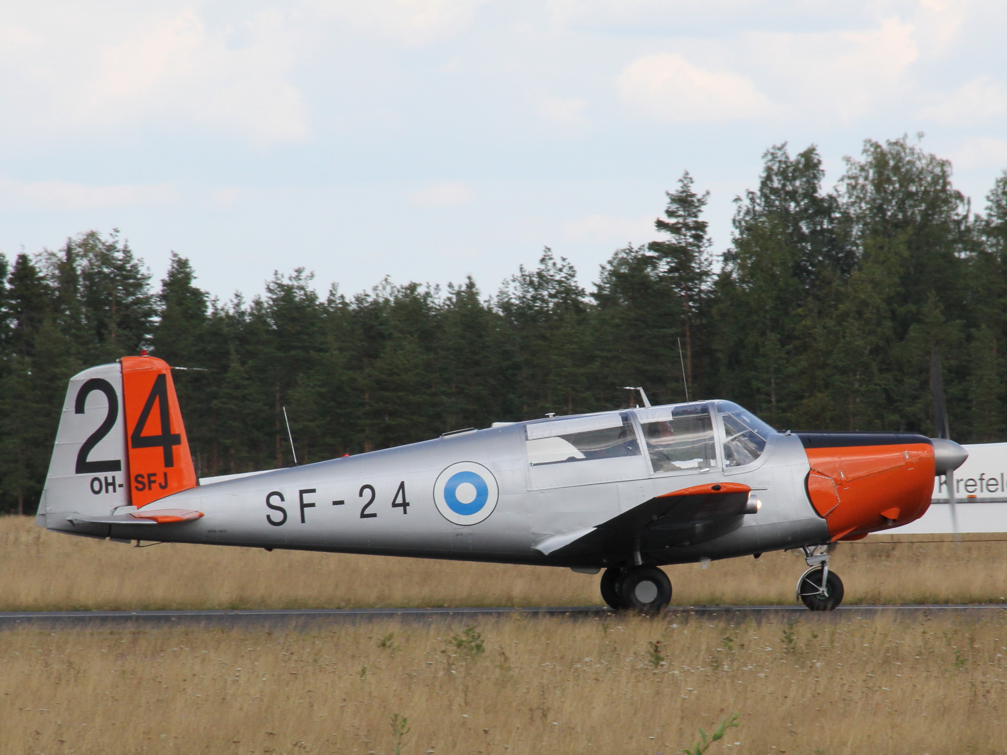 Saab Safir 91 D SF-24, a military trainer aircraft, registration OH-SFJ, in Oripää Airshow 2013, Finland. Pilot: Seppo Pihkala. Taxiing.